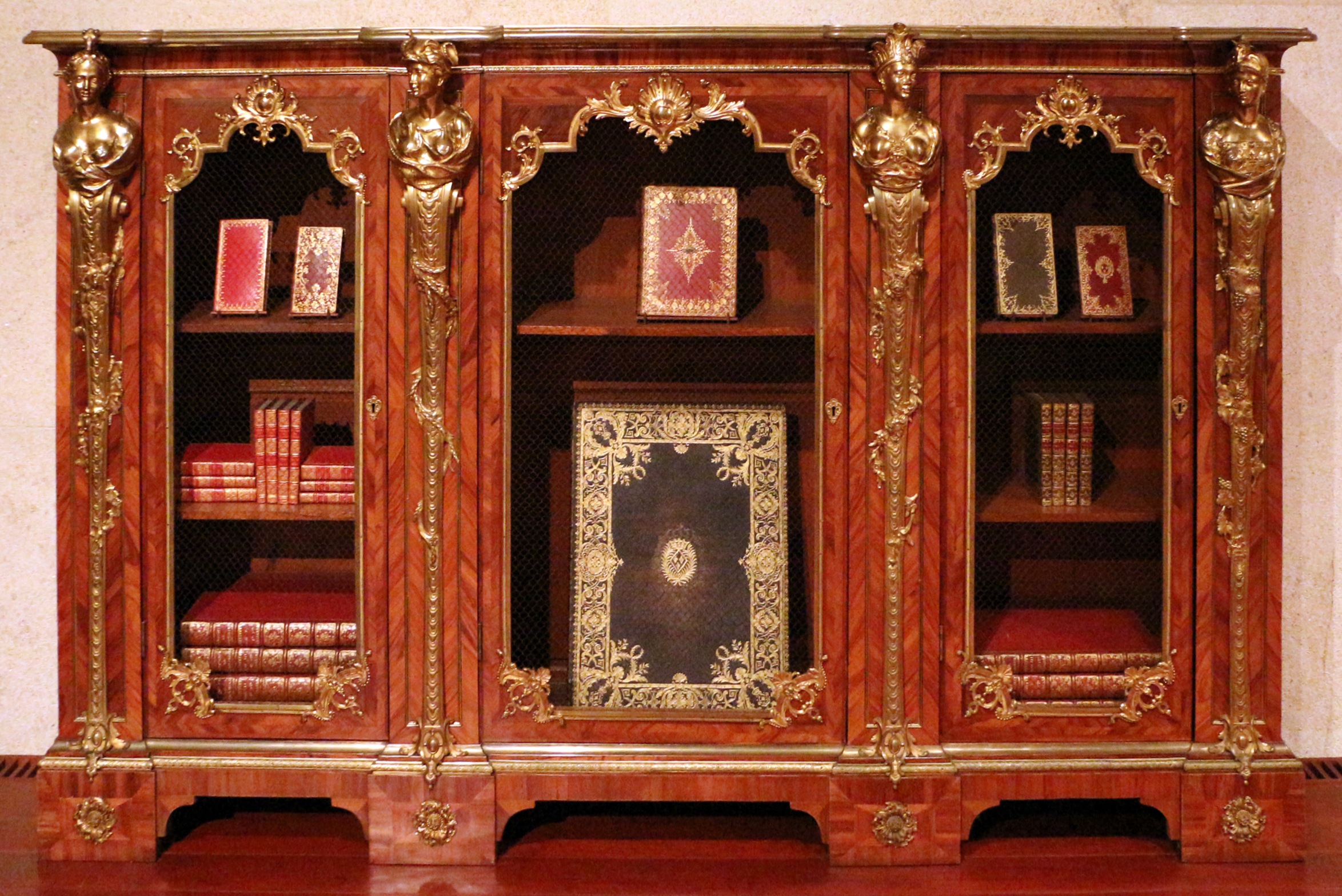 Furniture in the Calouste Gulbenkian Museum